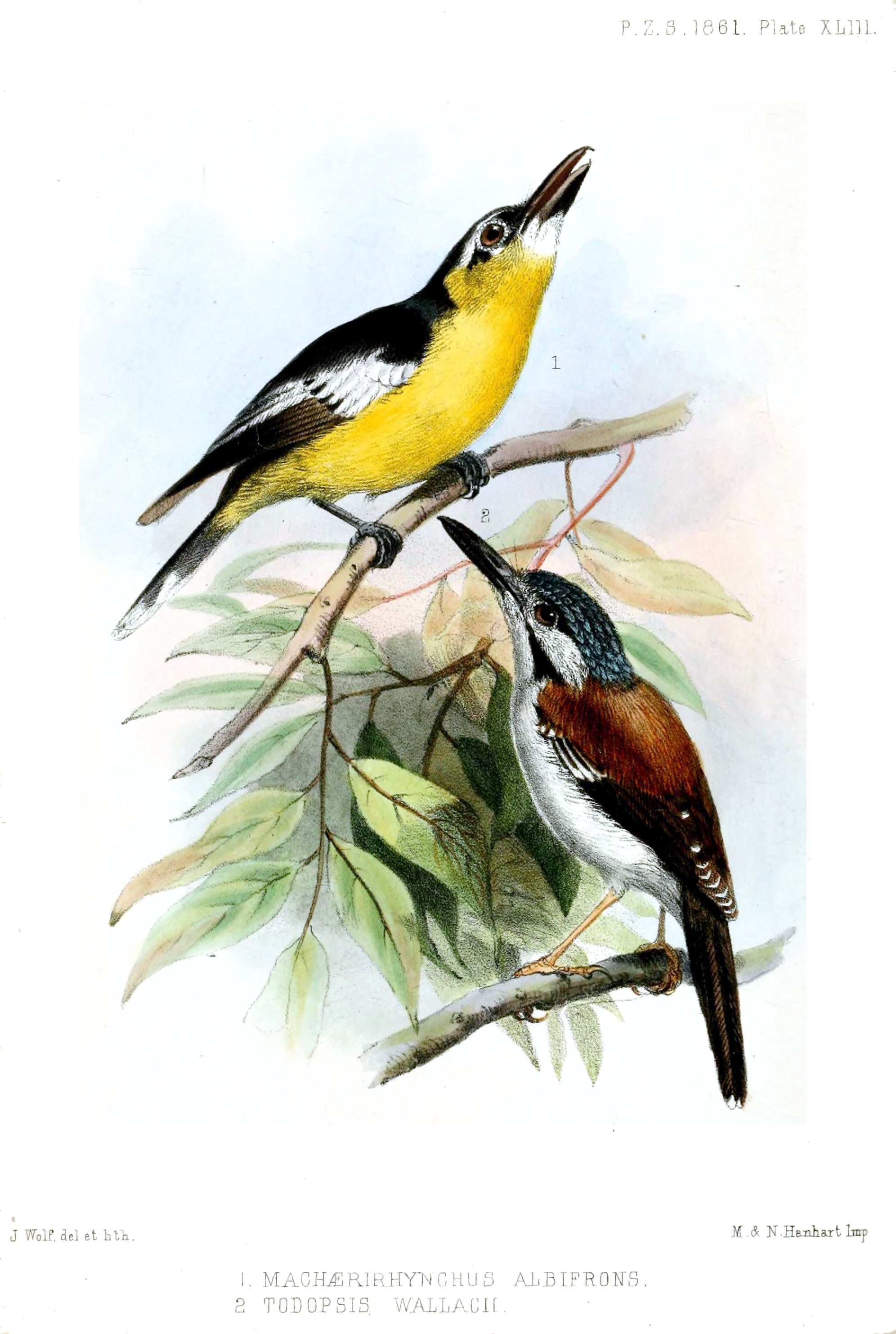 Yellow-breasted Boatbill (above), Wallace's Fairy-wren (below)